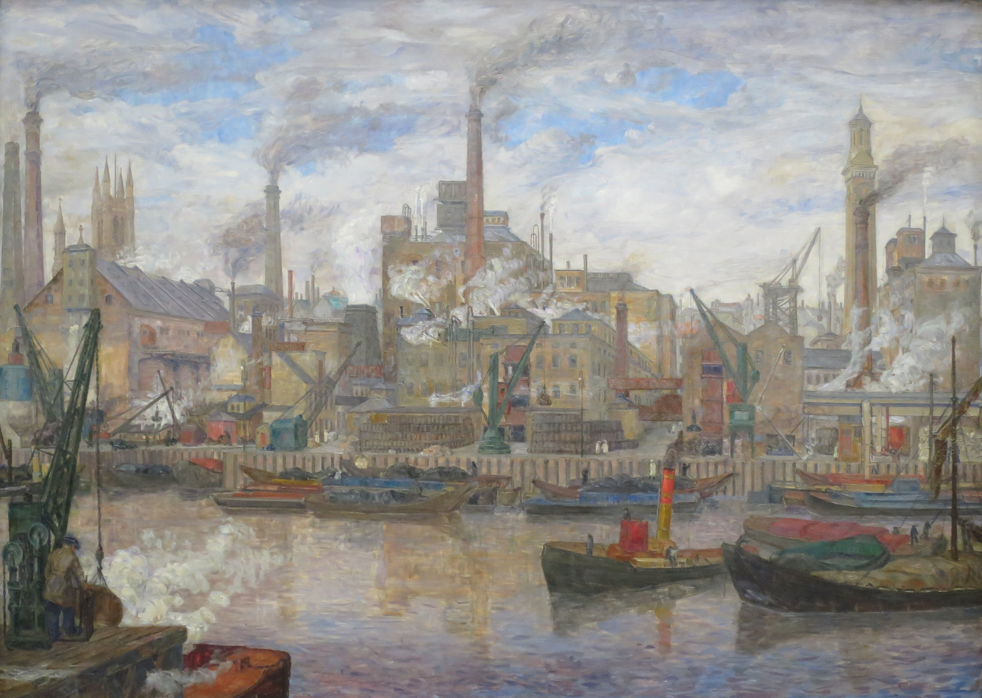 The Port of London by Anders Svarstad, 1911-12, oil on canvas, Bergen Kunstmuseum